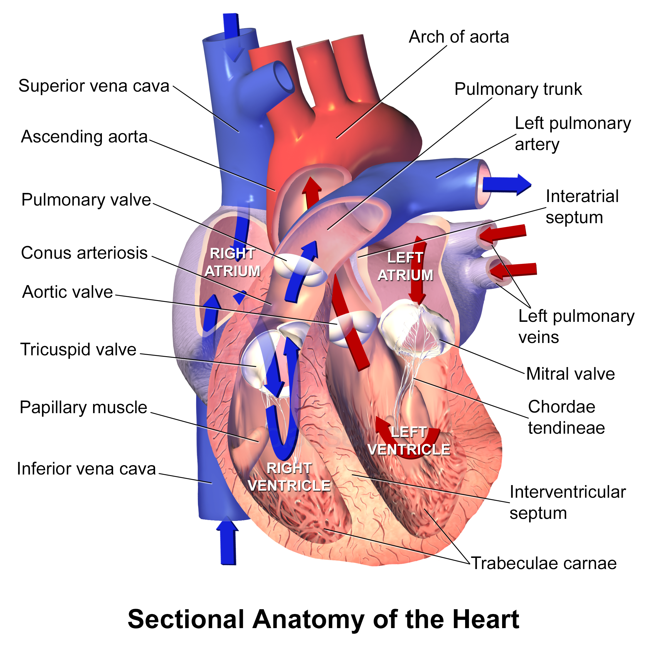 Sectional Anatomy of the Heart with Path of Blood Flow. See a full animation of this medical topic.